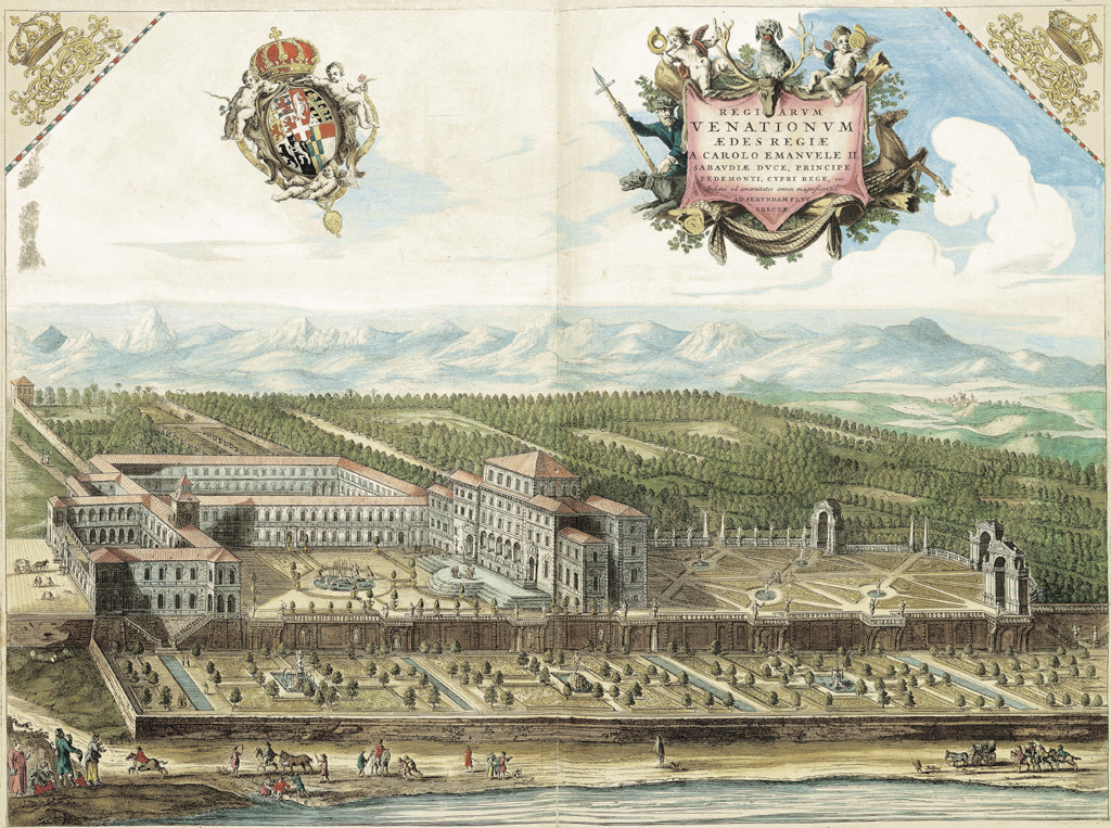 Old painting of Venaria Reala palace Palace of Venaria